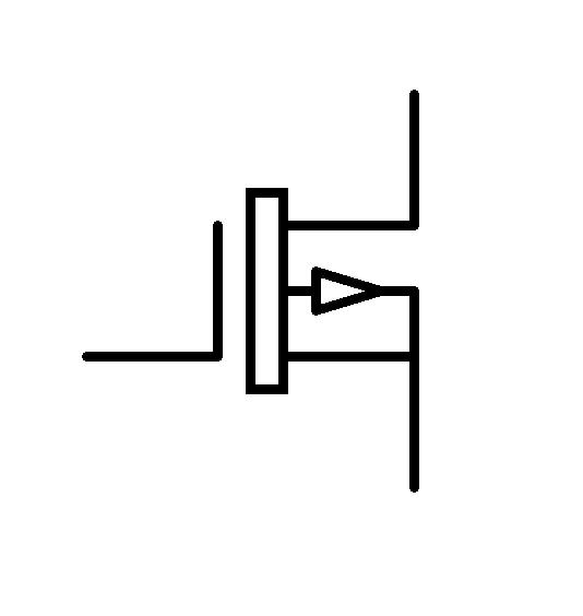 P cannel mosfet transistor